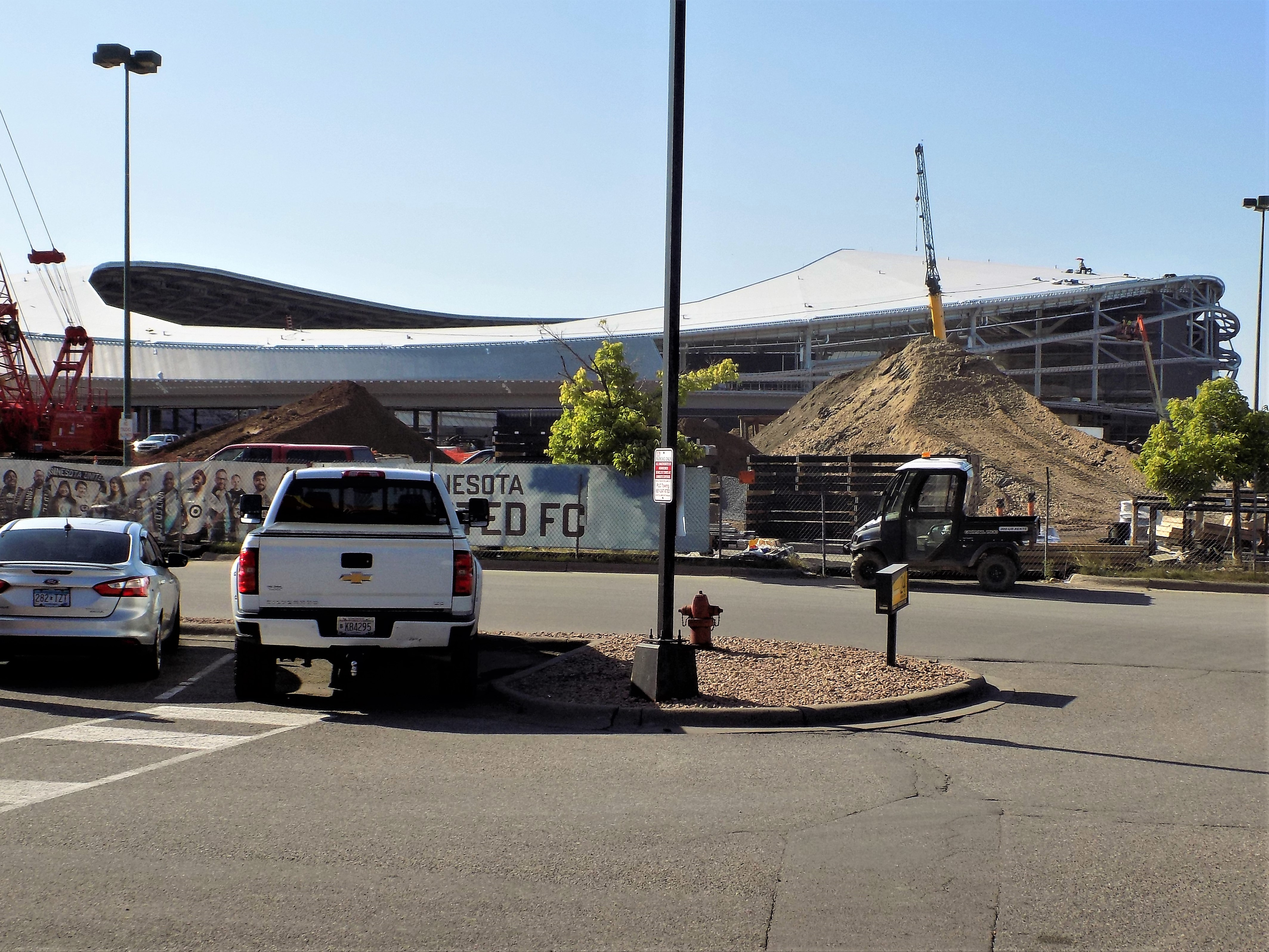 Allianz Field, home stadium of Minnesota United FC in Saint Paul, Minnesota. Date generated from EXIF appears to be wrong, since construction did not start until 2017.